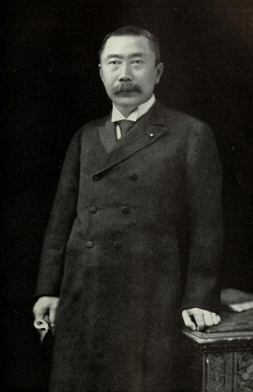 Portrait of Takahira Kogoro